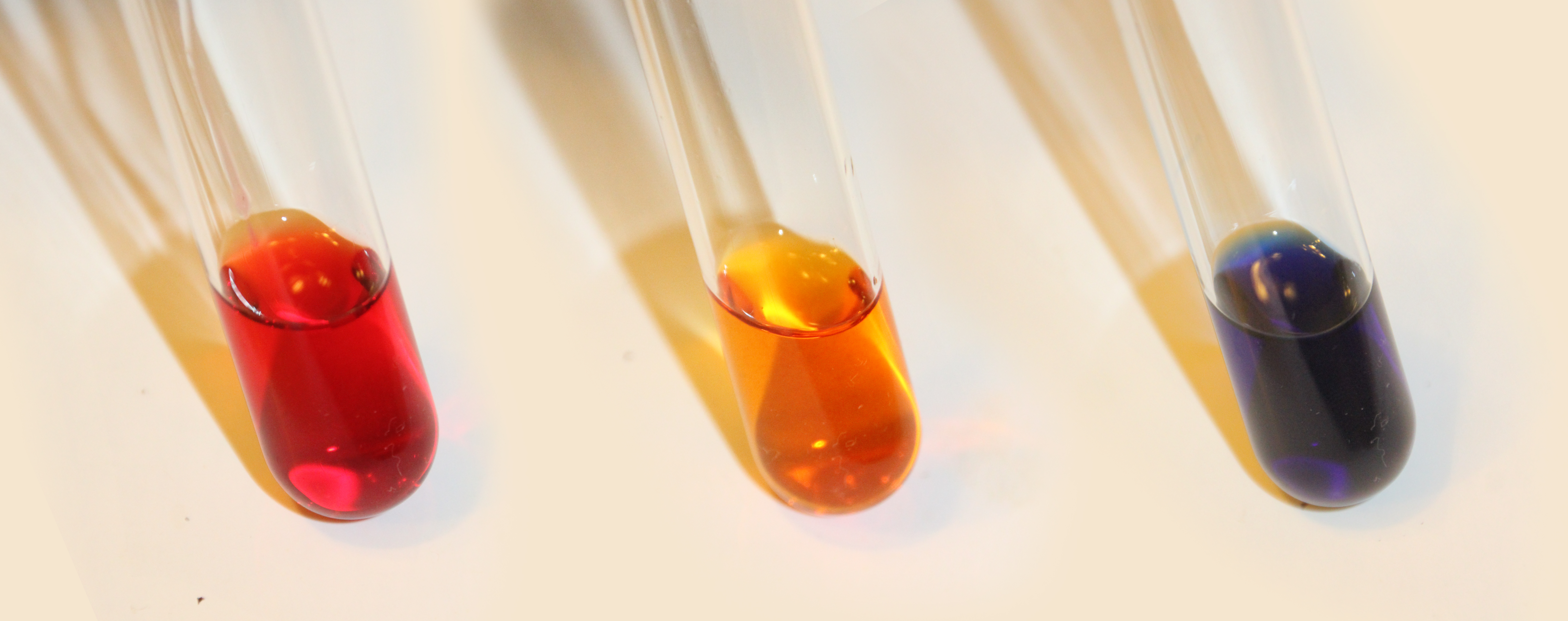 A photo showing thymol blue at different pH, the left one in acidic solution, the middle one in neutral solution, the right one in alkaline solution